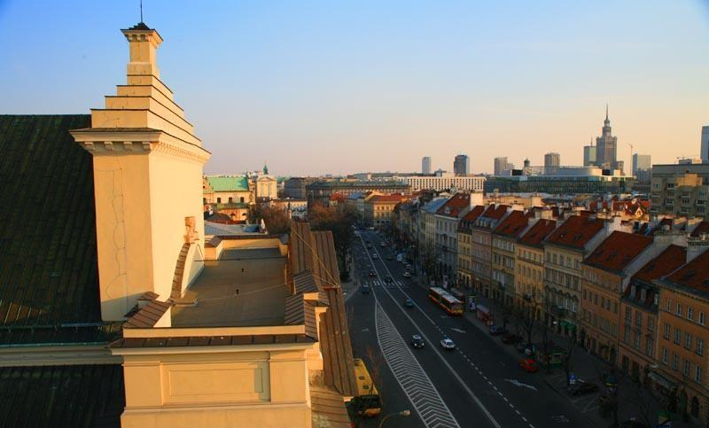 Krakowskie Przedmiescie, also known as the historic Faubourg de Cracovie, Warsaw, Poland. Part of traditional Royal Route